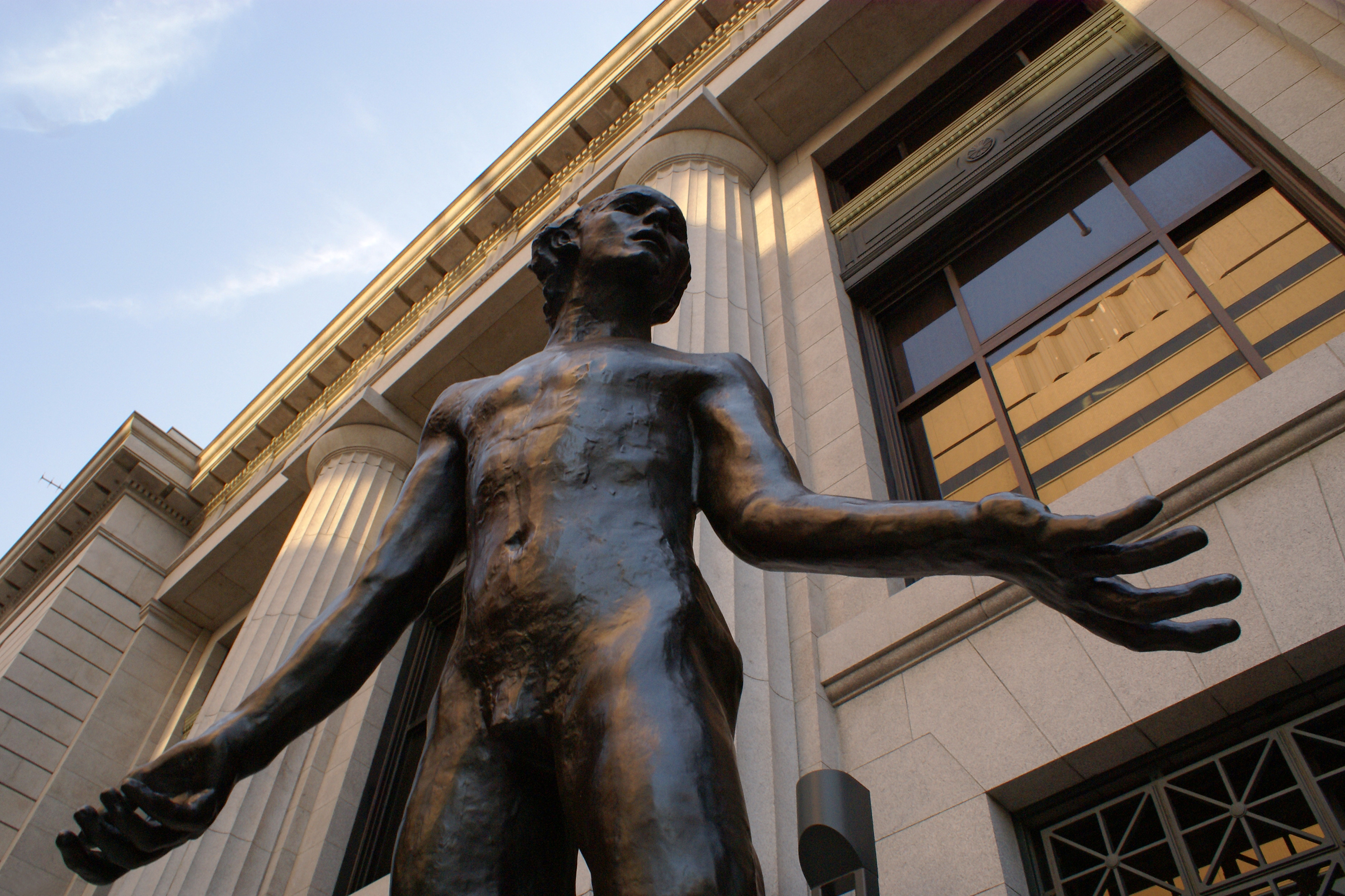 Rodin's "Jean de Fienne. Nu (Les burghers of Calais)" in front of the Kobe City Museum in Kobe, Hyogo prefecture, Japan